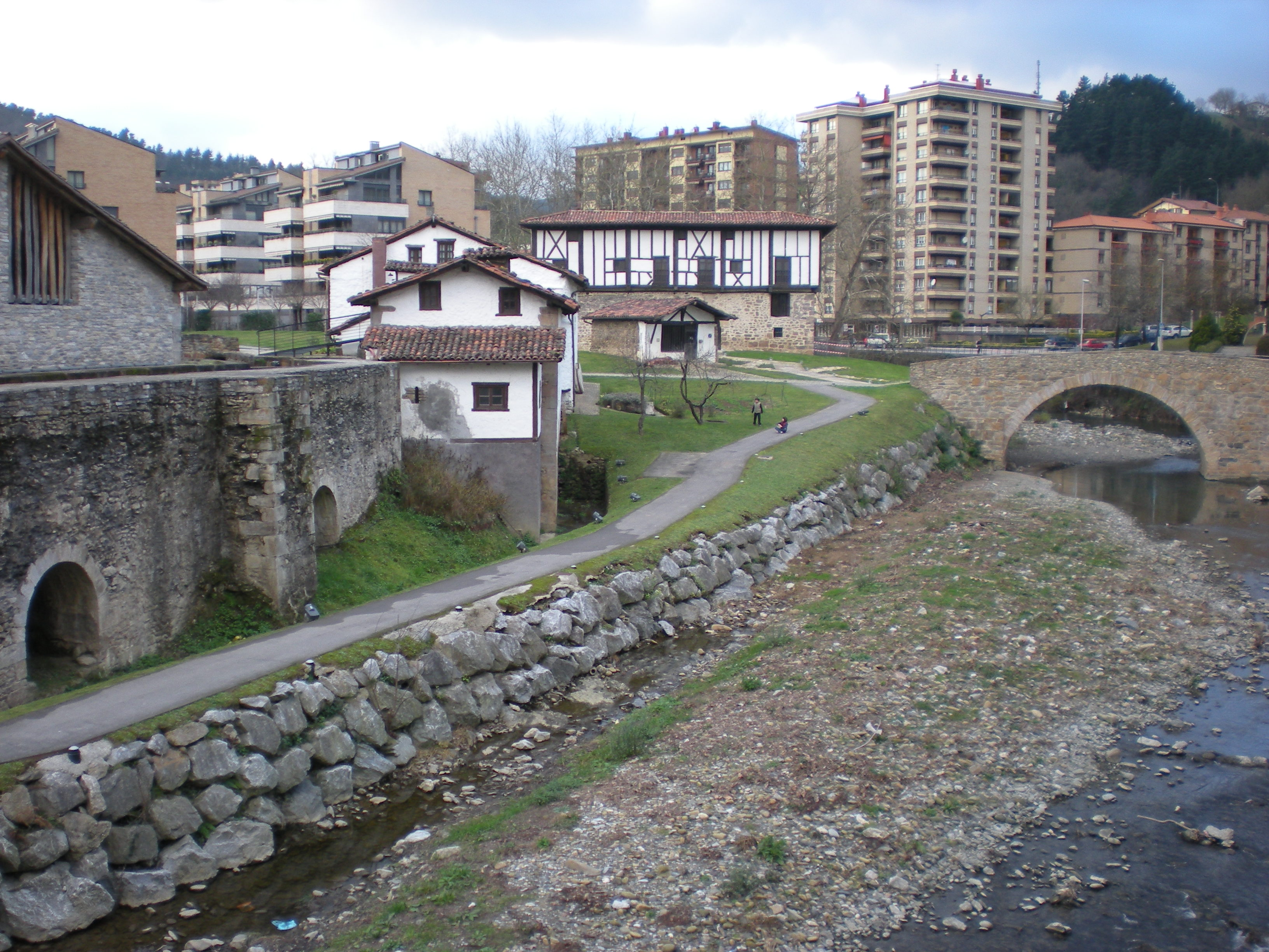 Igartza historical monuments, right side of river Oria